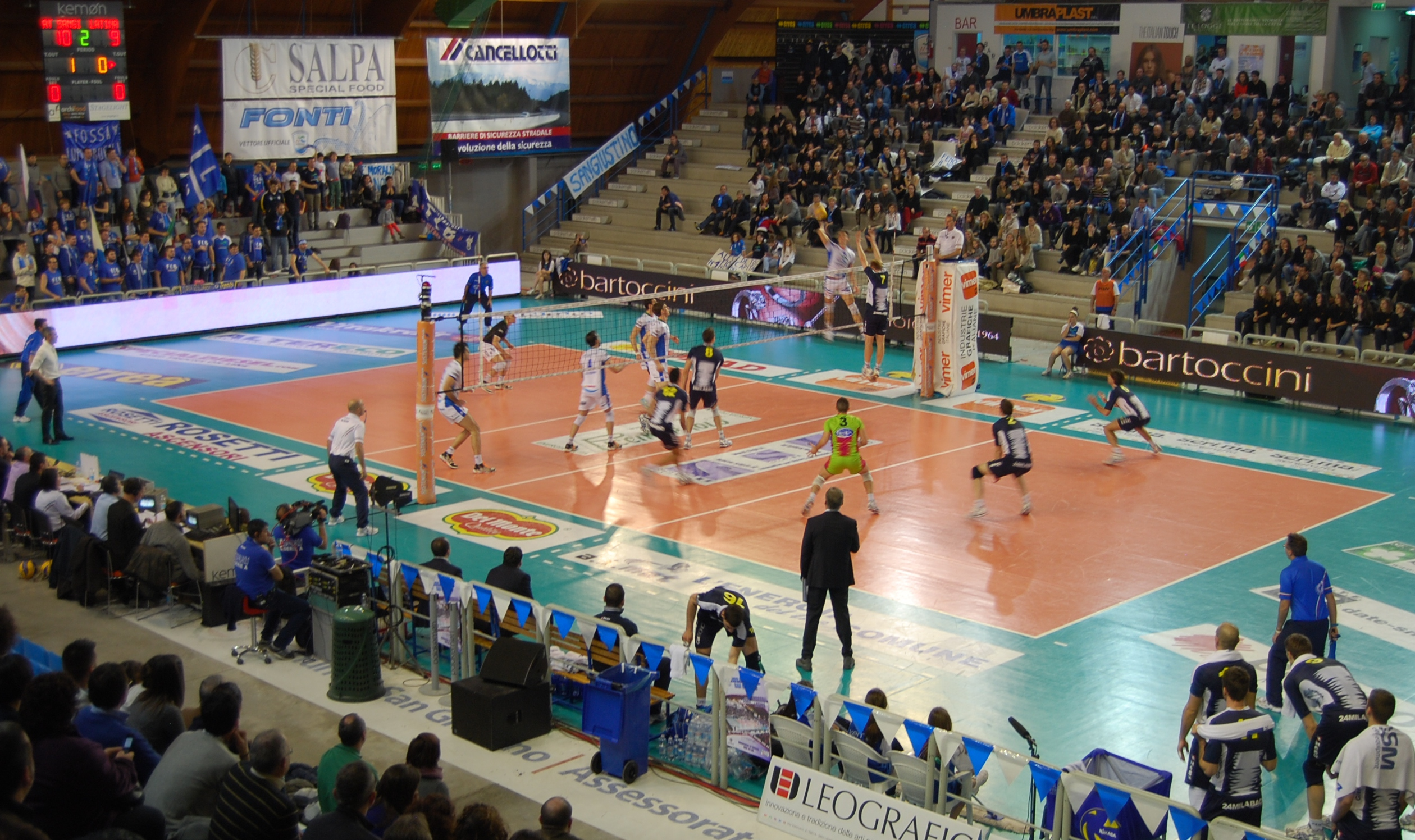 Volleyball game Altotevere Volley - Top Latina, 2013, March 17th, San Giustino, Italy